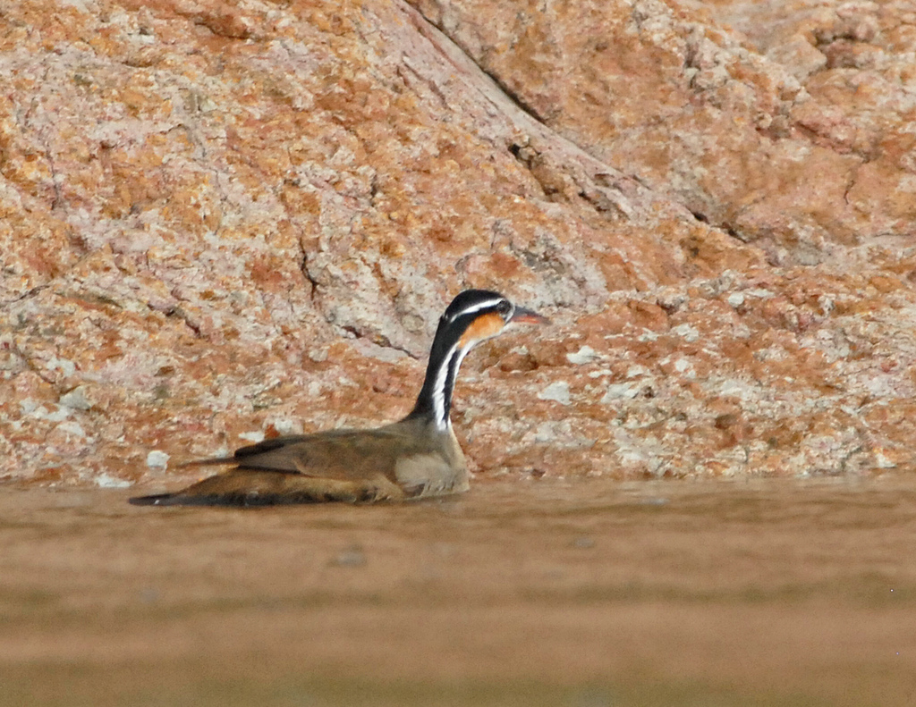 Sungrebe, photographed in Ecuador